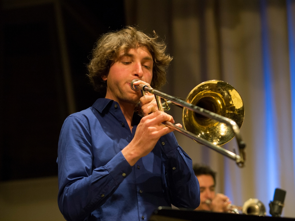 Johannes Lauer, Jazz trombonist; Picture taken in Studio 2 / Bayerischer Rundfunk, Munich/Bavaria